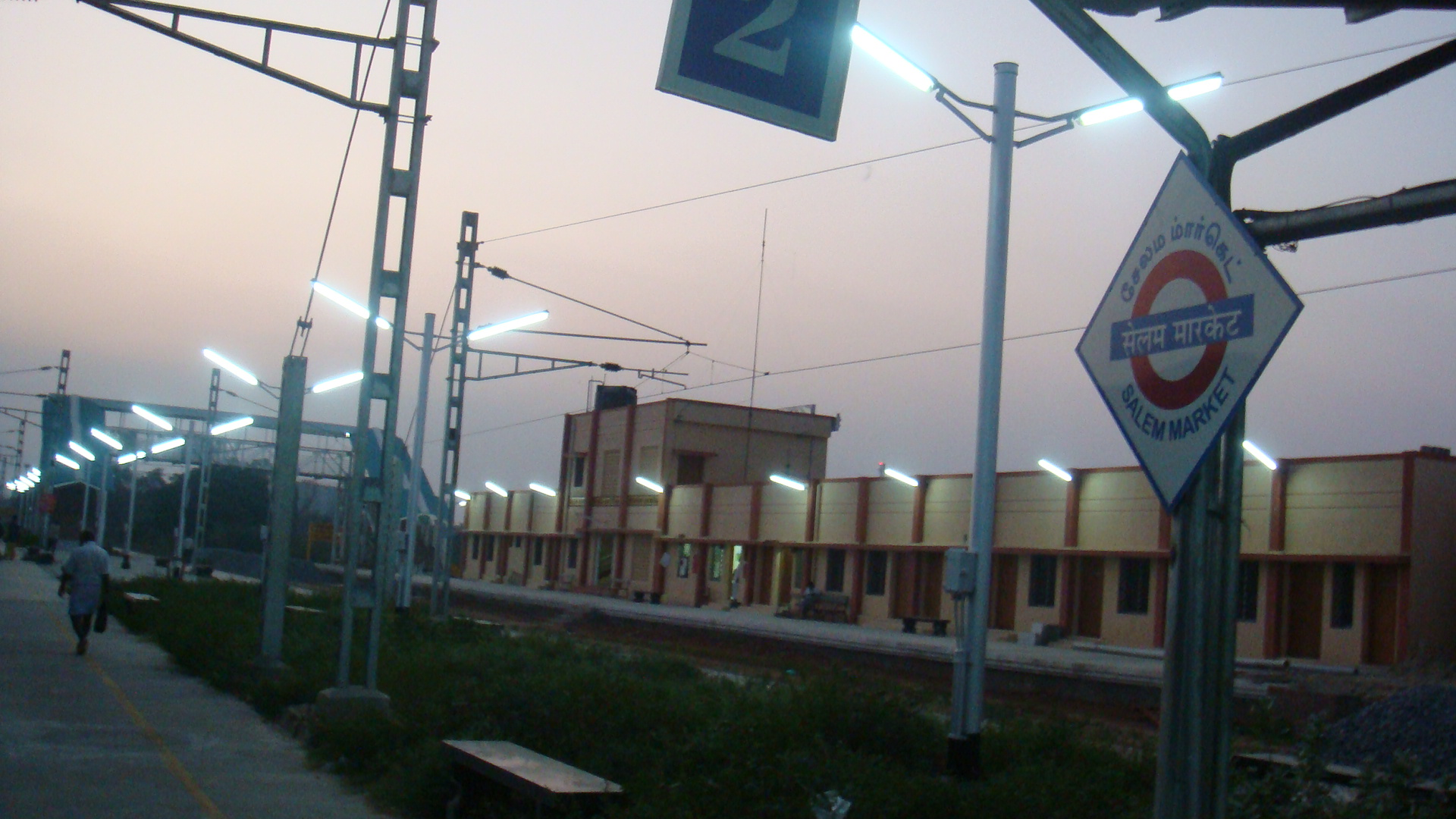 Salem Junction Railway Station